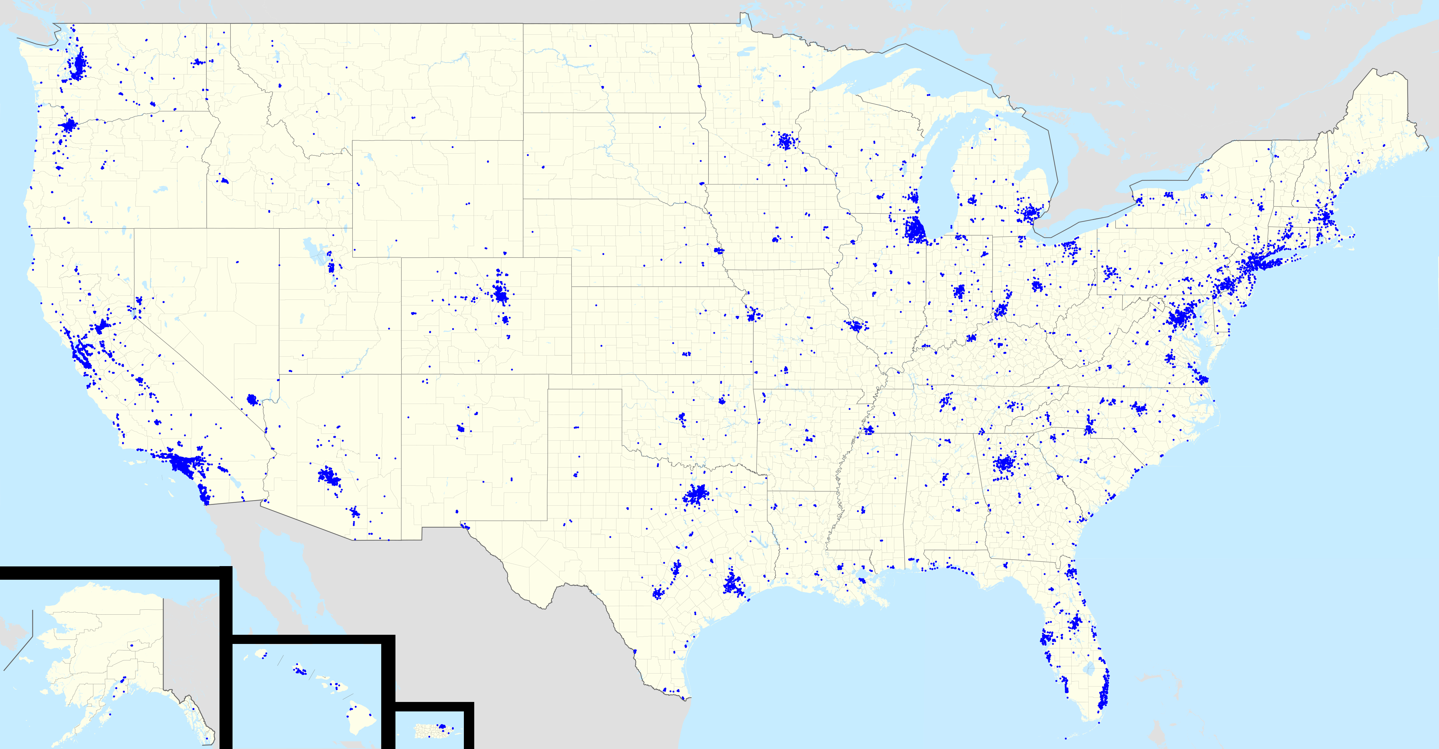 Footprint of Starbucks in the United States as of February 2012.